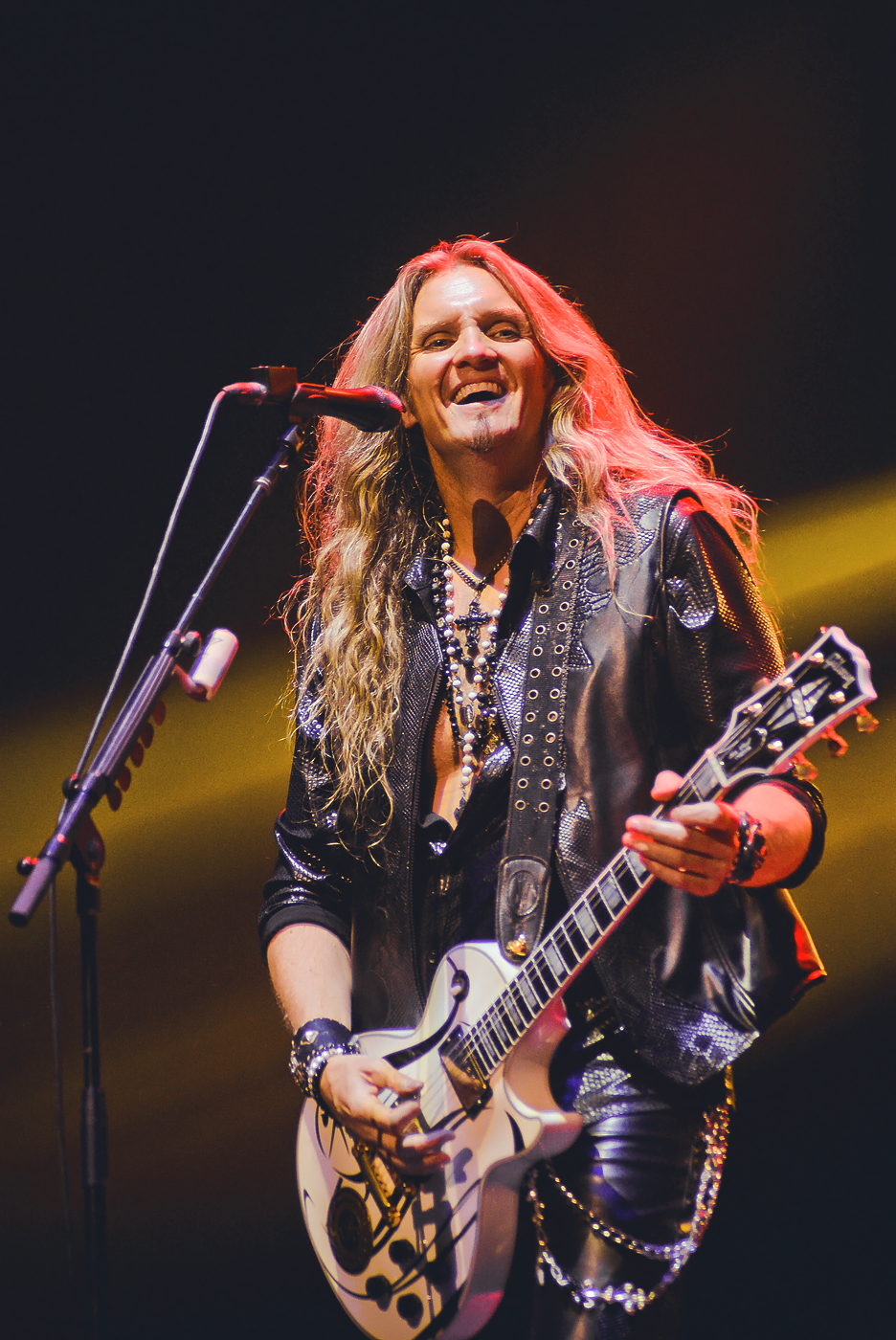 15.07.2019 - Whitesnake, Saint-Petersburg